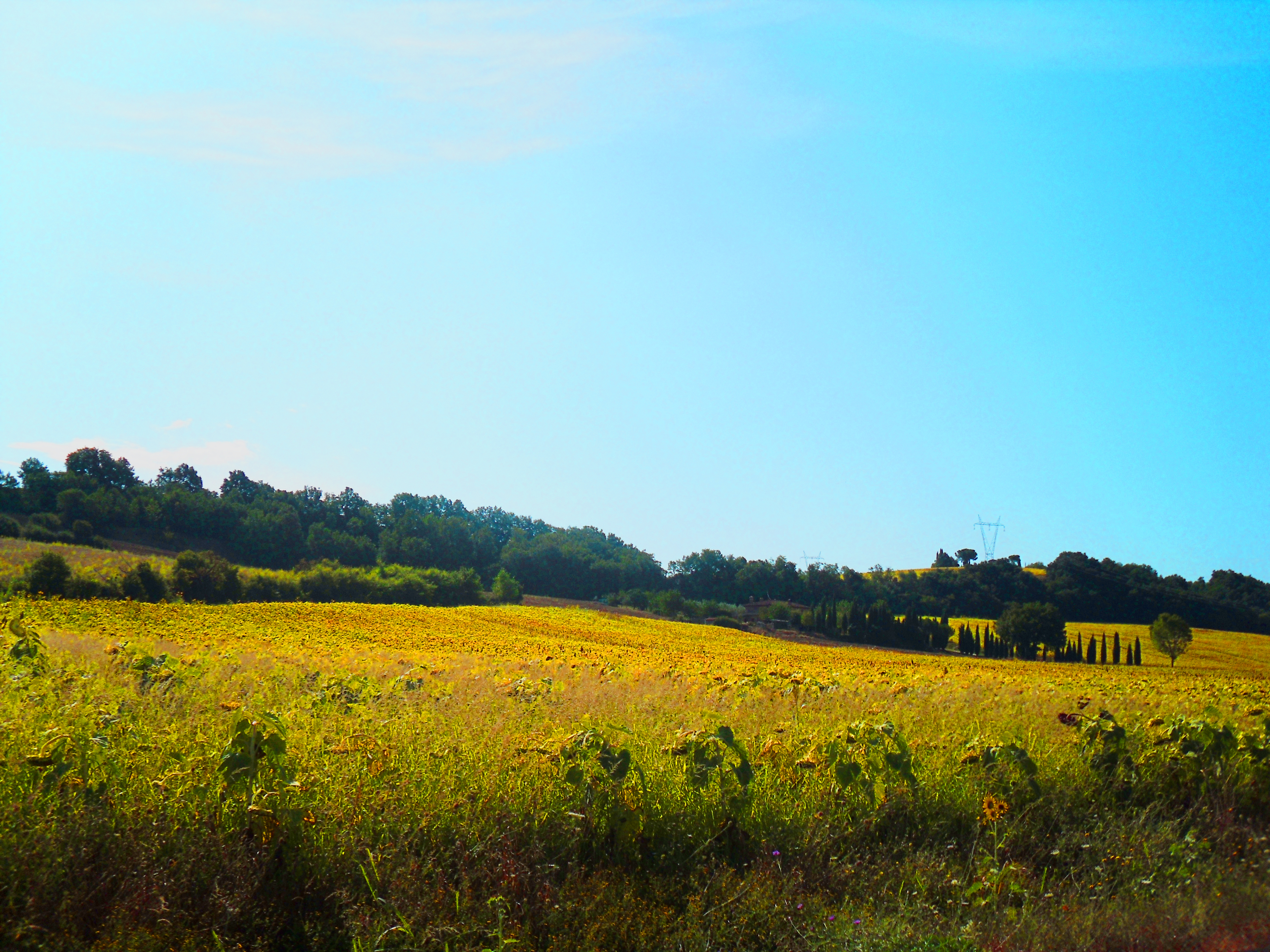 Sunflower (Helianthus annuus) field near Foiano della Chiana in Val di Chiana, Tuscany, Italy.